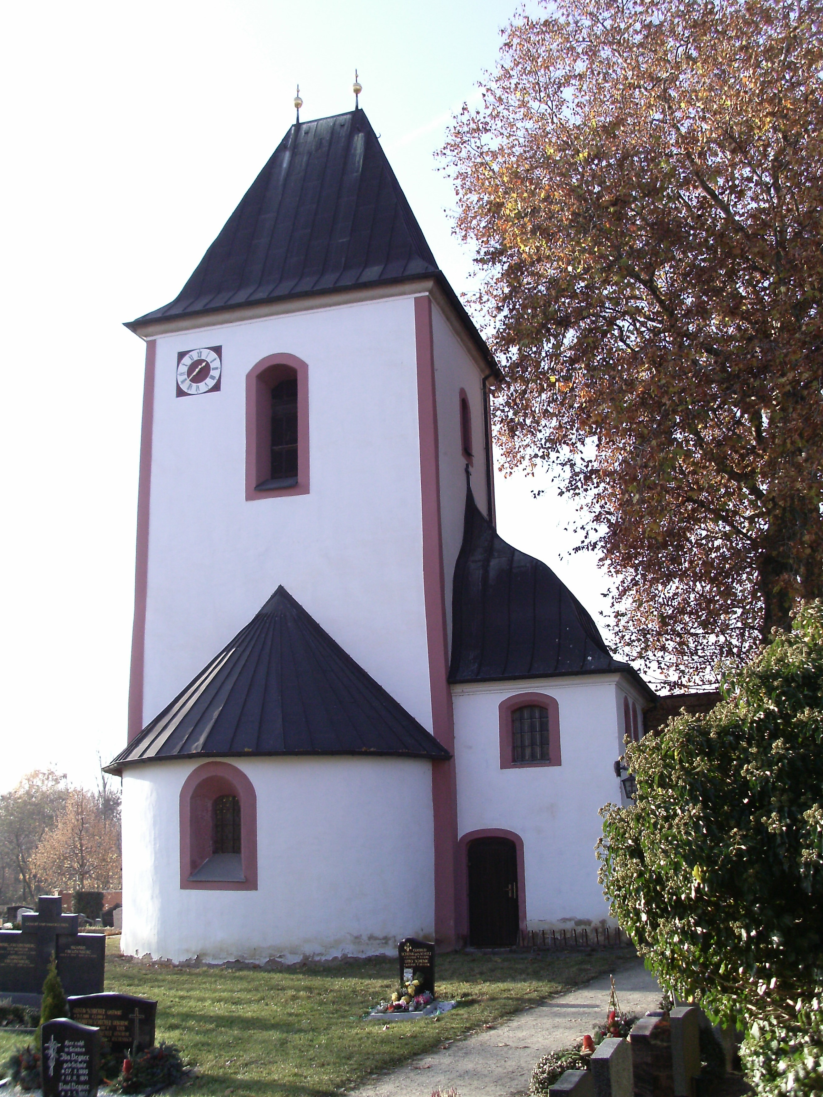 Luther Church in Grosspösna (Leipzig district, Saxony), view from the north-east